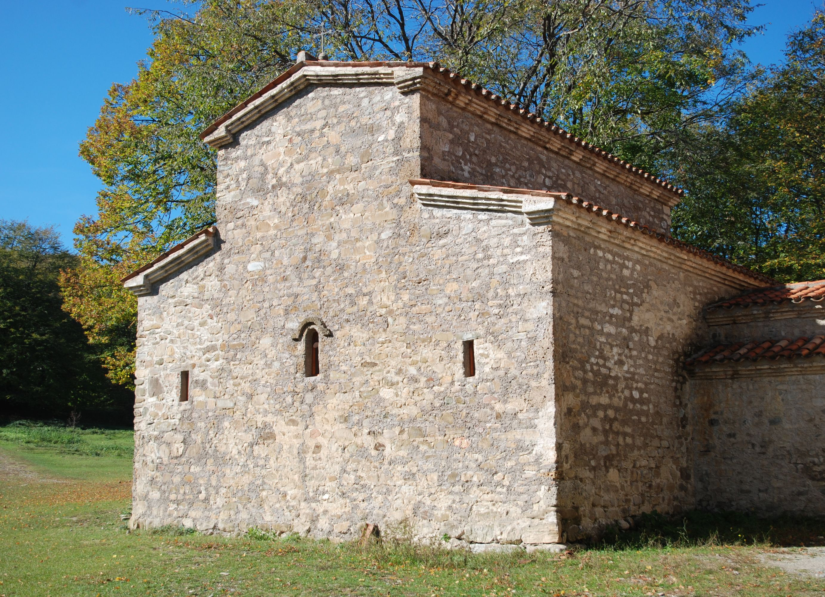 Old Shuamta, basilica east side